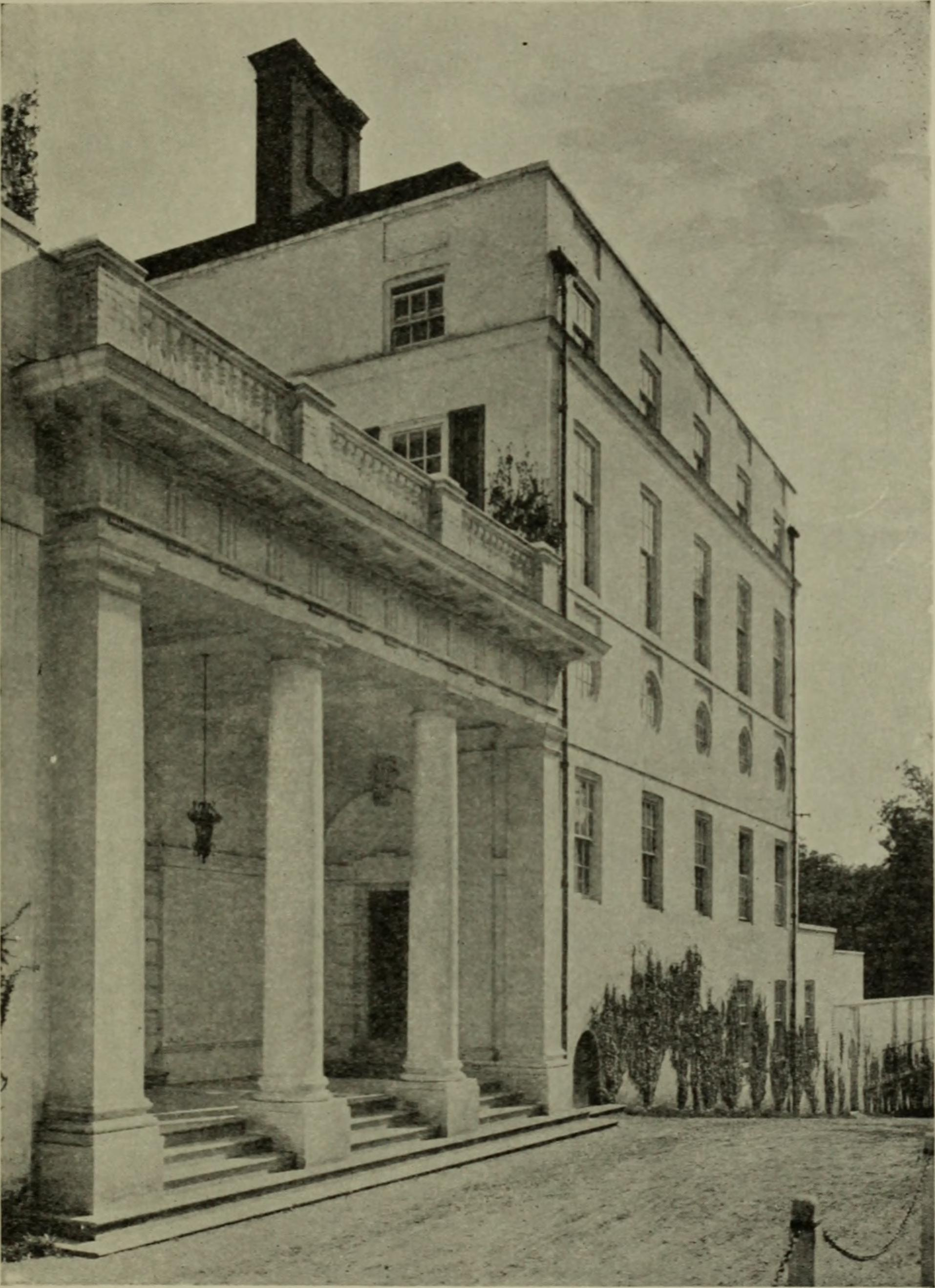 Title: Lutyens houses and gardens Year: 1921 (1920s) Authors: Weaver, Lawrence, 1876-1930 Subjects: Lutyens, Edwin Landseer, Sir, 1869-1944 Architecture, Domestic Gardens Publisher: London, Offices of "Country life", ltd. (etc.) New York, C. Scribner's Sons Text Appearing Before Image: urved bays break the line (Fig. 114),but otherwise Nashdom is almost nakedly severe. Inthe hands of a less skilled designer, such a conceptionwould have taken shape as a barrack. As it is, the house hasa character of distinction which marks it as an Englishvariant of eighteenth-century Italian and French mansions,yet without a mark of foreign detail. Nashdom is a tourde force in whitewashed brick. Its nearness to the roadhas impressed on the plan the character of a town mansionrather than of a country house. From the entrance door weascend twelve steps to get to the ground floor, level withthe garden front. On this side is the range of reception-rooms, amongst which the dining-room seemed to metypical. The round dining-table was equipped (I am writingof ten years ago) in an entertaining way, with a hint of thegarden. Its middle was occupied by a round pool, andamidst miniature rockwork there bloomed forget-me-notsand other delicate flowers in their seasons. A tiny fountain Nashdom 157 Text Appearing After Image: in.—The Porch: From the Road. 158 Wind-indicating Dials tinkled and electric lamps, secretly disposed, added brilli-ance to the gold fish inhabiting the pool. The treatmentof a landing fireplace deserves a word (Fig. 113). Over ahundred and fifty years ago Isaac Ware suggested that theblank space in the panel of an overmantel might be filledwith a wind-indicating dial. Sir Edwin Lutyens has beendoing it for many years. The dial, round which the wind-pointer swings, is decorated with a map of the district, so